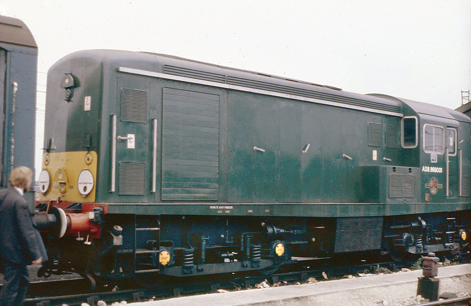 Braintree Model Railway Club visit to Colchester Sept 1980